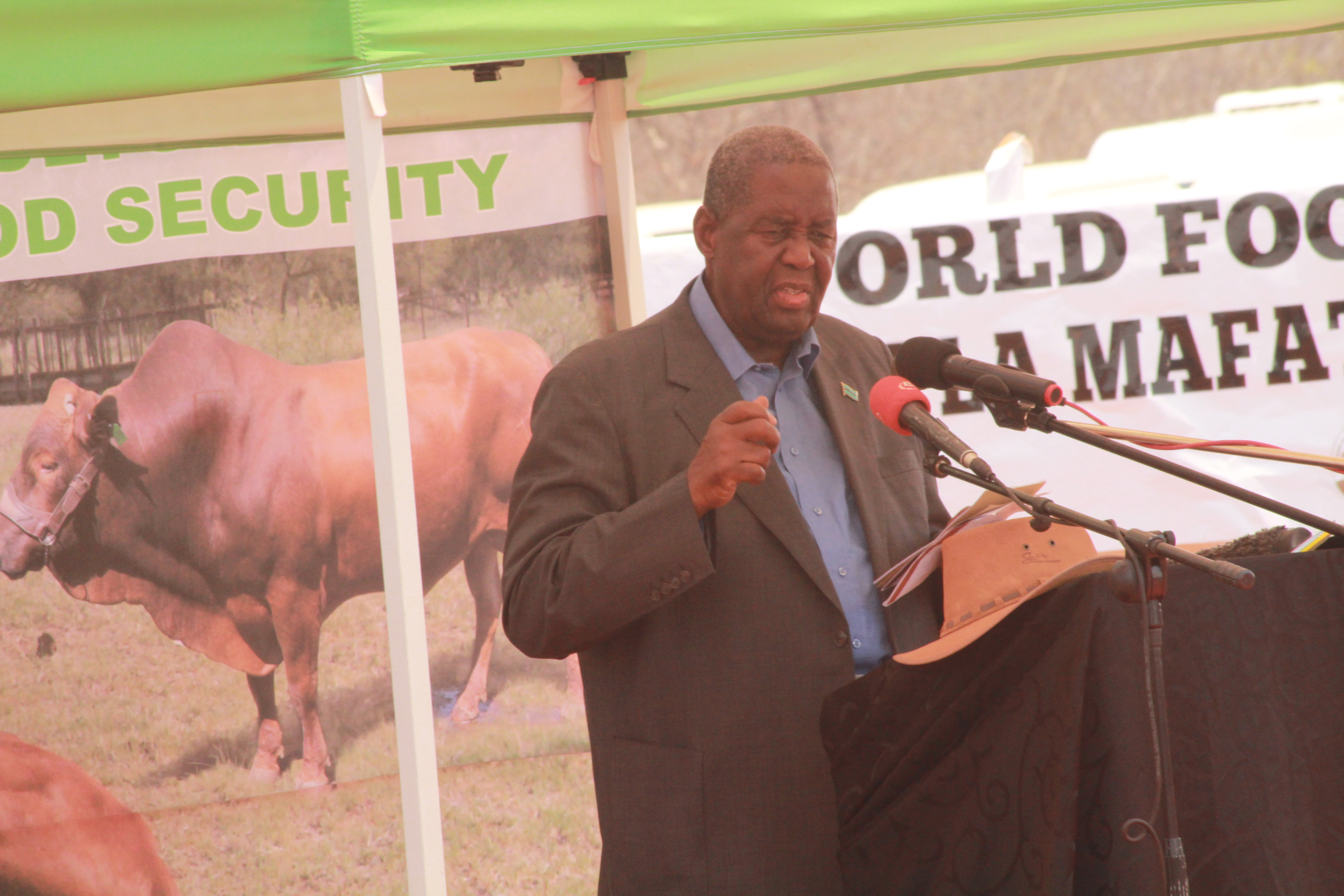 Ponatshego Kedikilwe giving a keynote address at the World Food day 2017 in Kalakamati Farm.